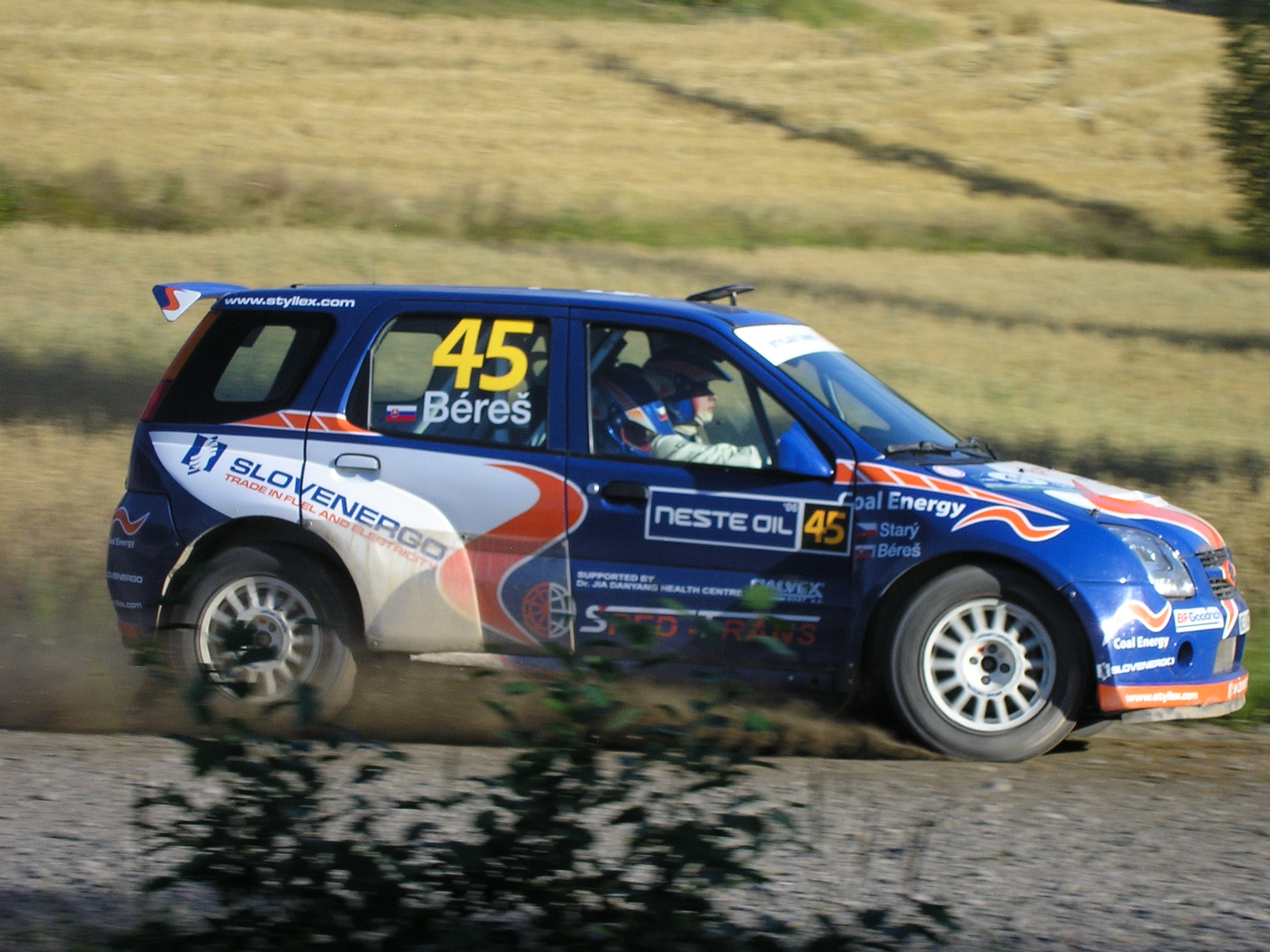 Jozef Béreš at Moksi-Leustu stage at 2006 Rally Finland